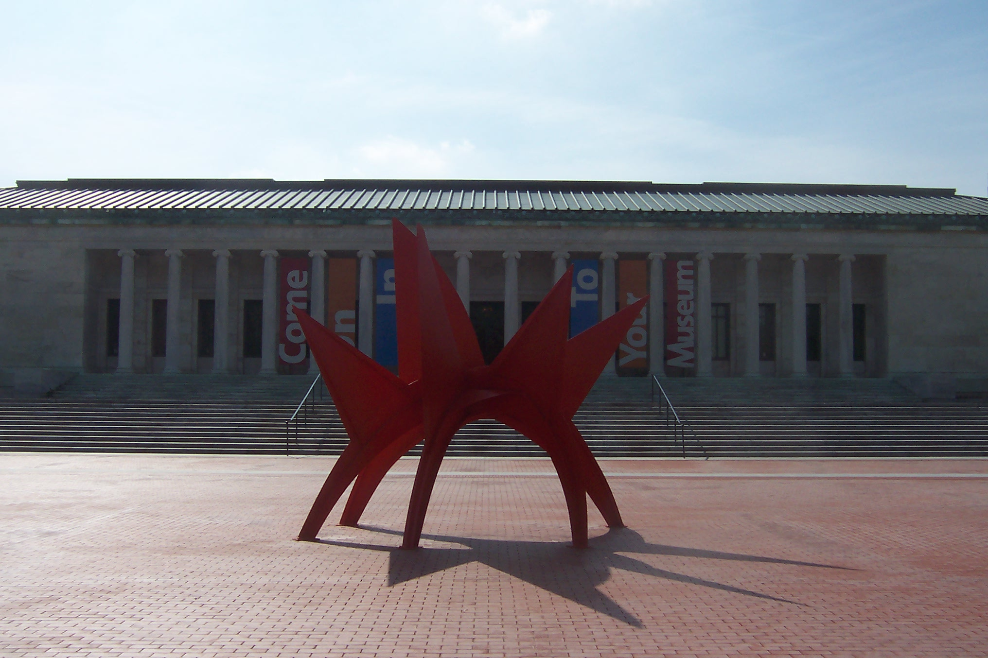 Toledo Museum of ARt